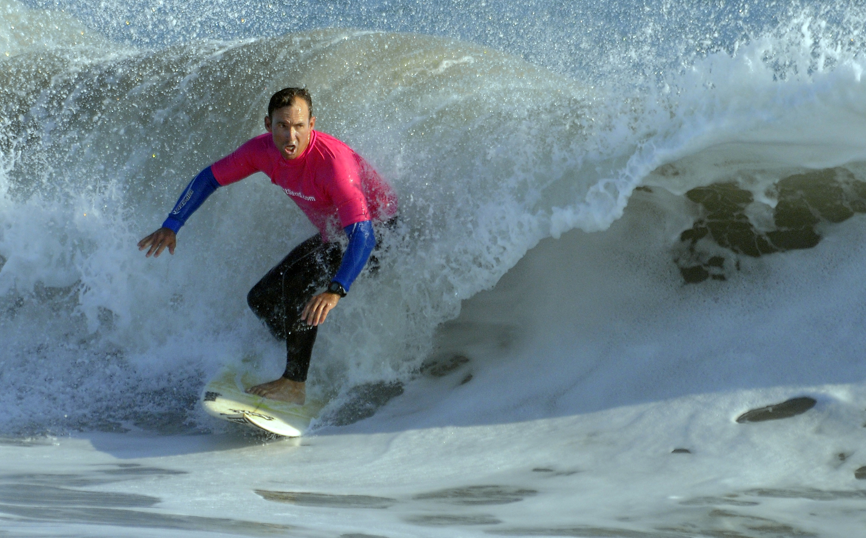 POINT MUGU, Calif. (Oct. 25, 2008) Jefferey Easson rides a wave off of Point Mugu during the first Naval Base Ventura County Surf Contest. Easson took first place honors in the military division. (U.S. Navy photo by Mass Communication Specialist 1st Class Michael Moriatis/Released)